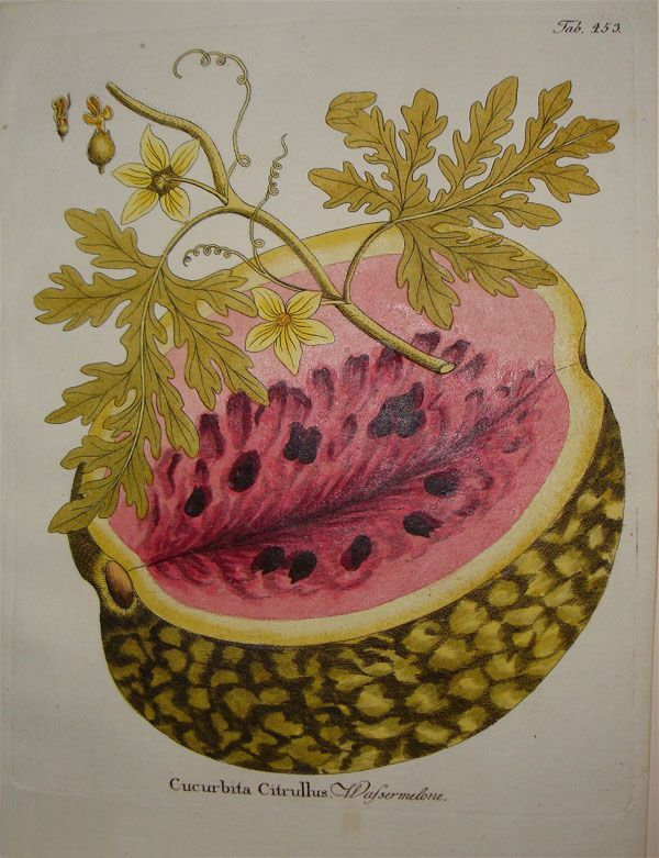 Citrullus lanatus (watermelon) (= Cucurbita citrullus) from Icones Plantarum Medico-Oeconomico-Technologicarum (1800-1822)